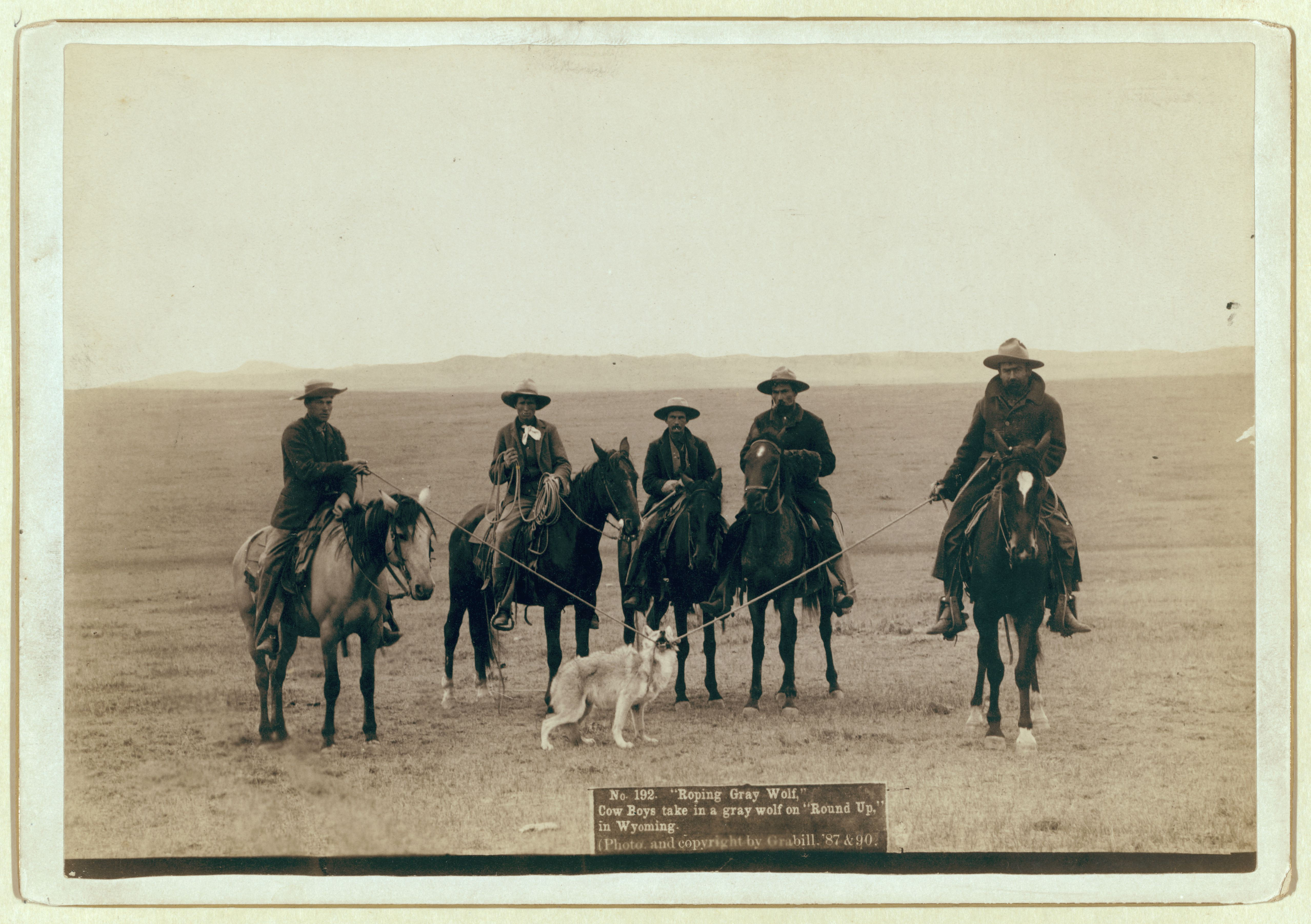 Original title "Roping gray wolf," Cowboys take in a gray wolf on "Round up," in Wyoming Five cowboys on horses roping a wolf.